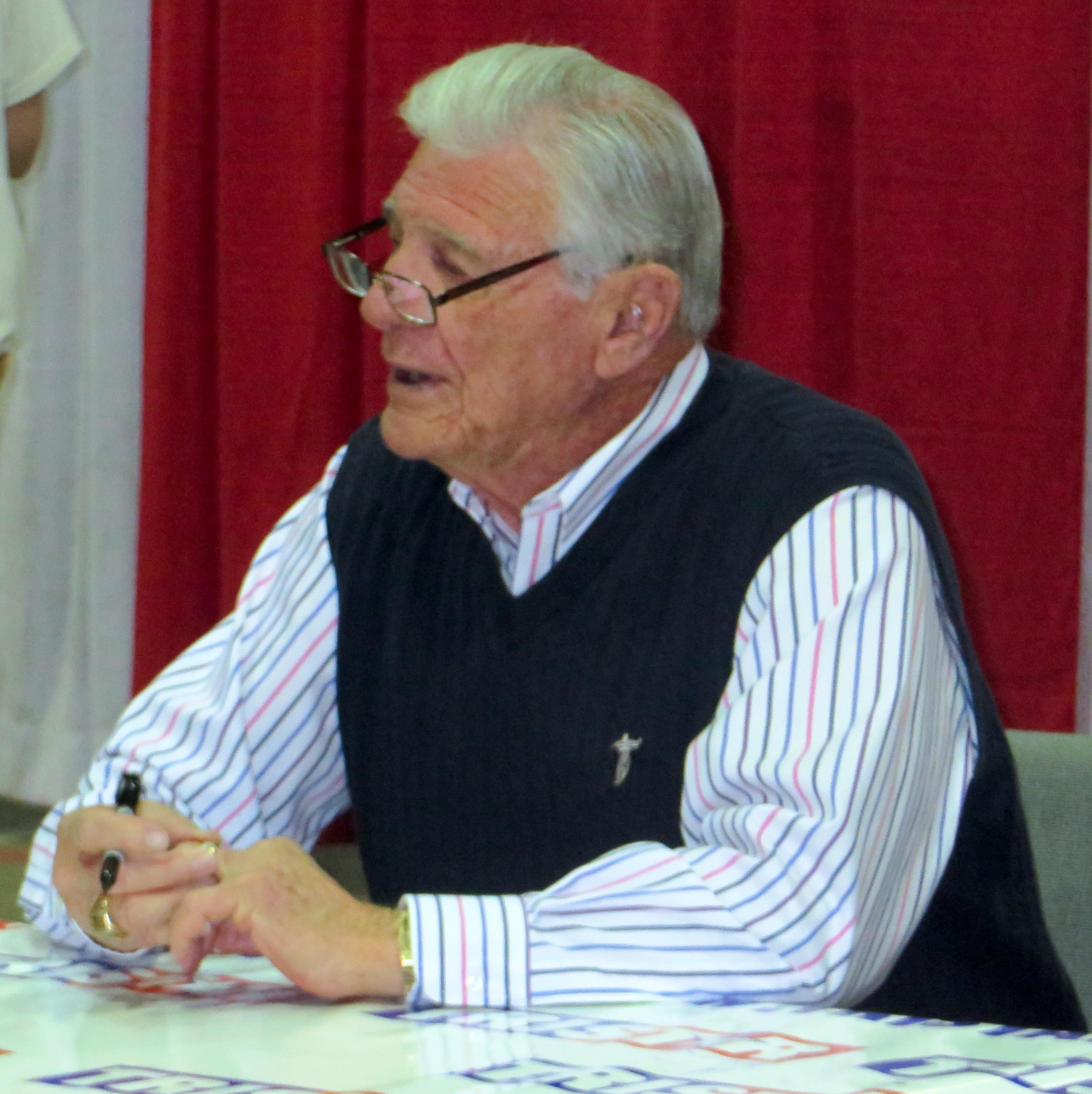 Former football running back Hugh McElhenny at a Houston sports collectors show in January 2014.